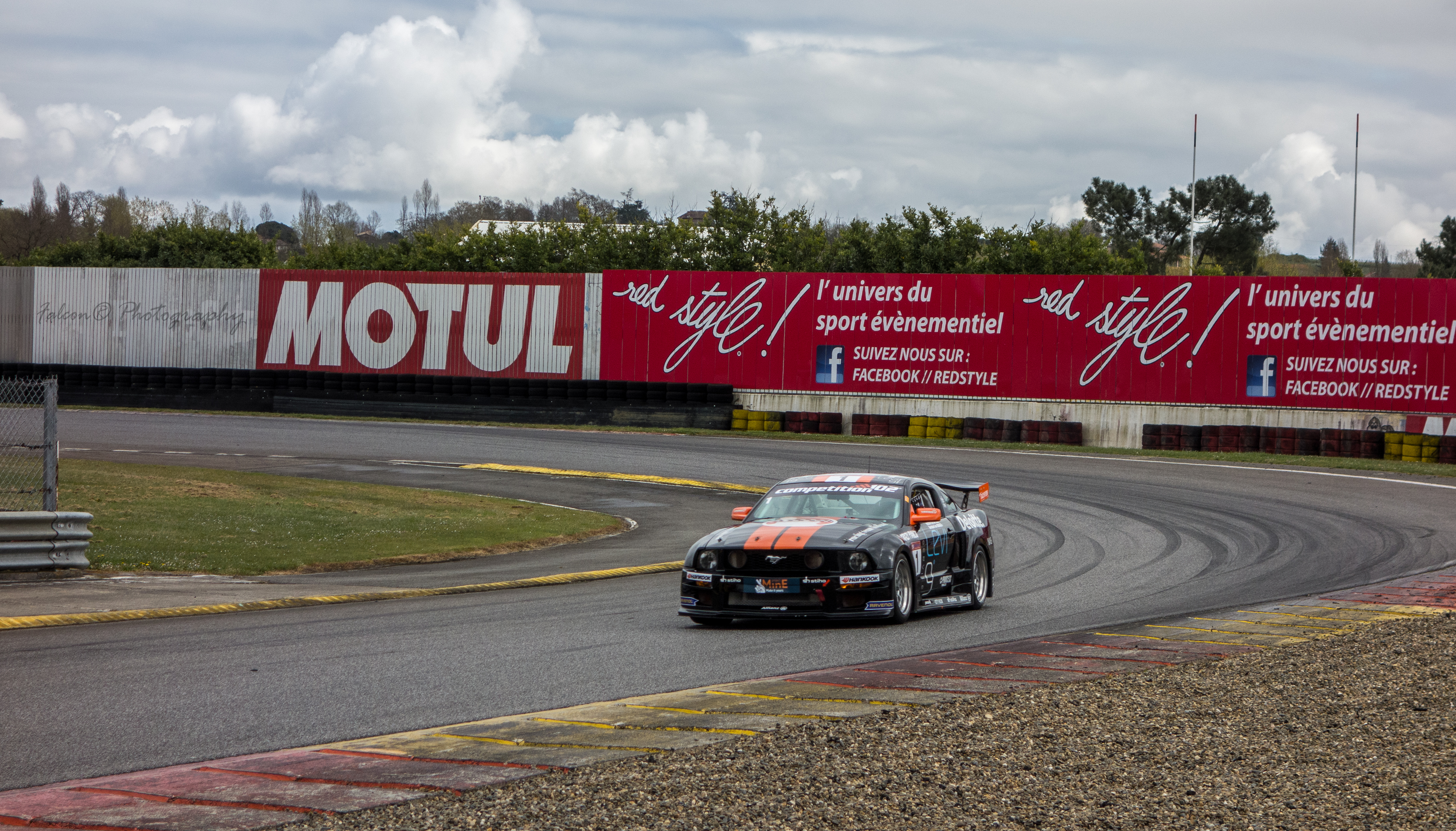 Ford Mustang FR500C GT4. Racing Team Holland by Ekris Motorsport #1 PRO V8 5.0 500BHP 1440kg 85000€ with bodykit (20k€) Nogaro 2015 Race 1 :not classified, 1:41.48 Race 2 :not classified, 1:35.32